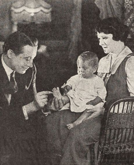 Still from the American drama film Brass (1923), on page 554 of the February 10, 1923 Exhibitor's Trade Review.